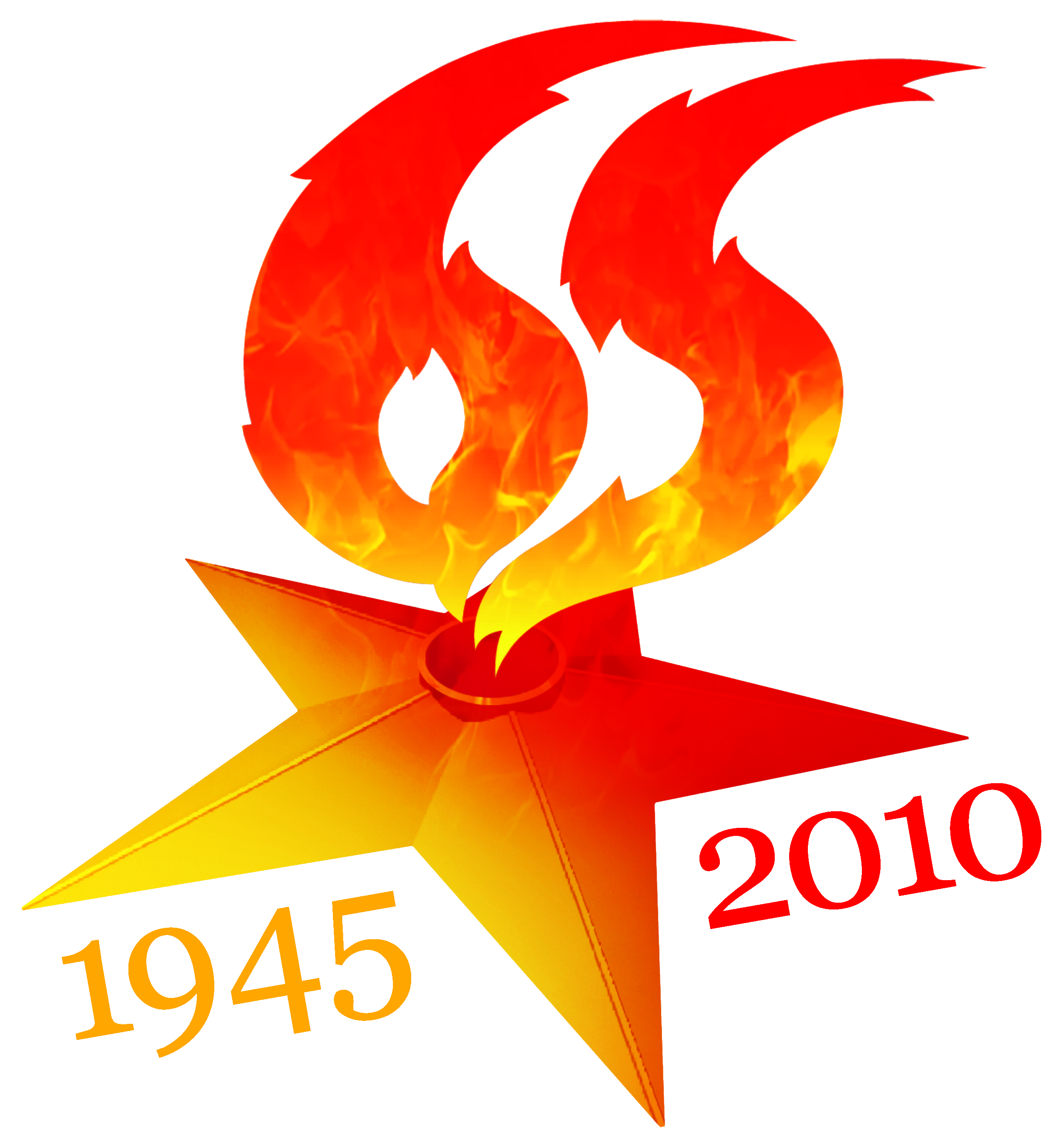 Emblem of the 65th Anniversary Victory Day celebrations in Russia